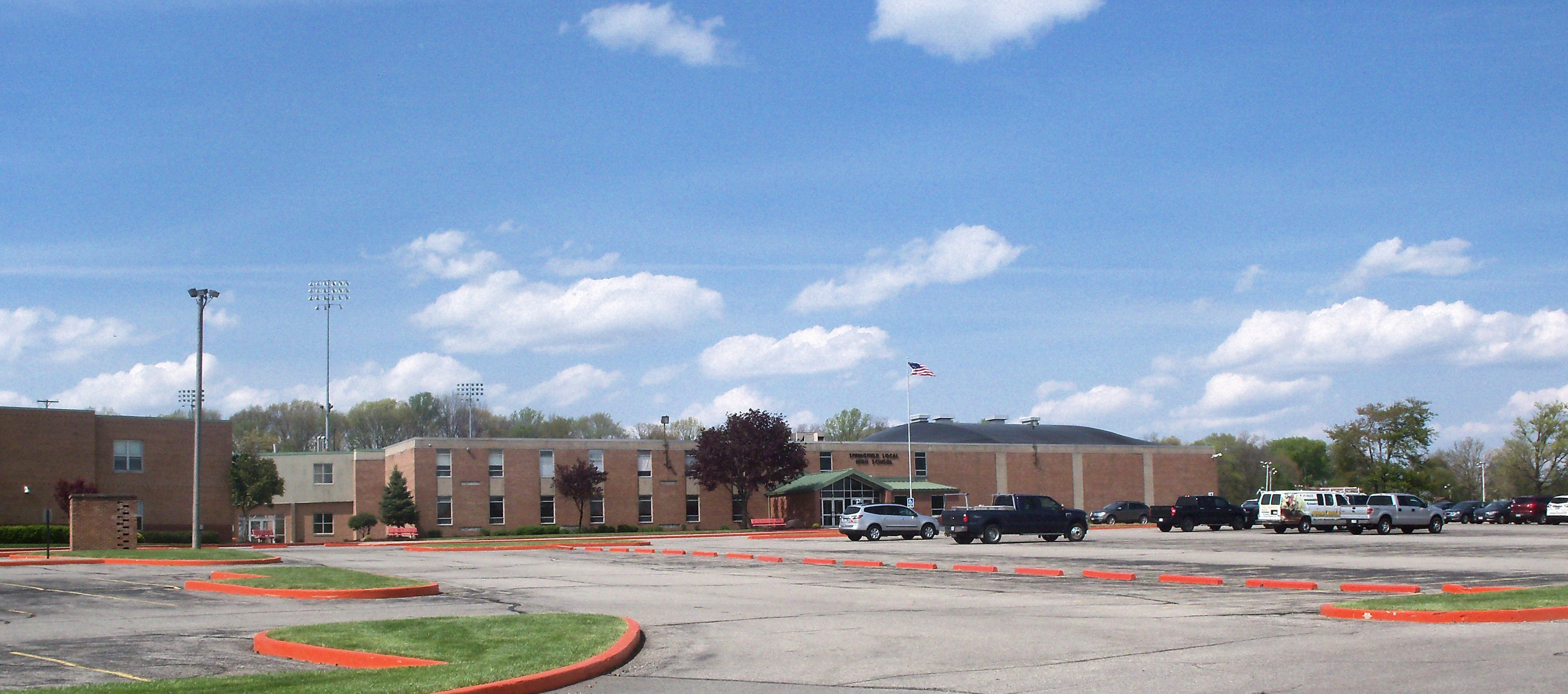 Springfield High School (New Middletown, Ohio) is south of New Middletown, Ohio